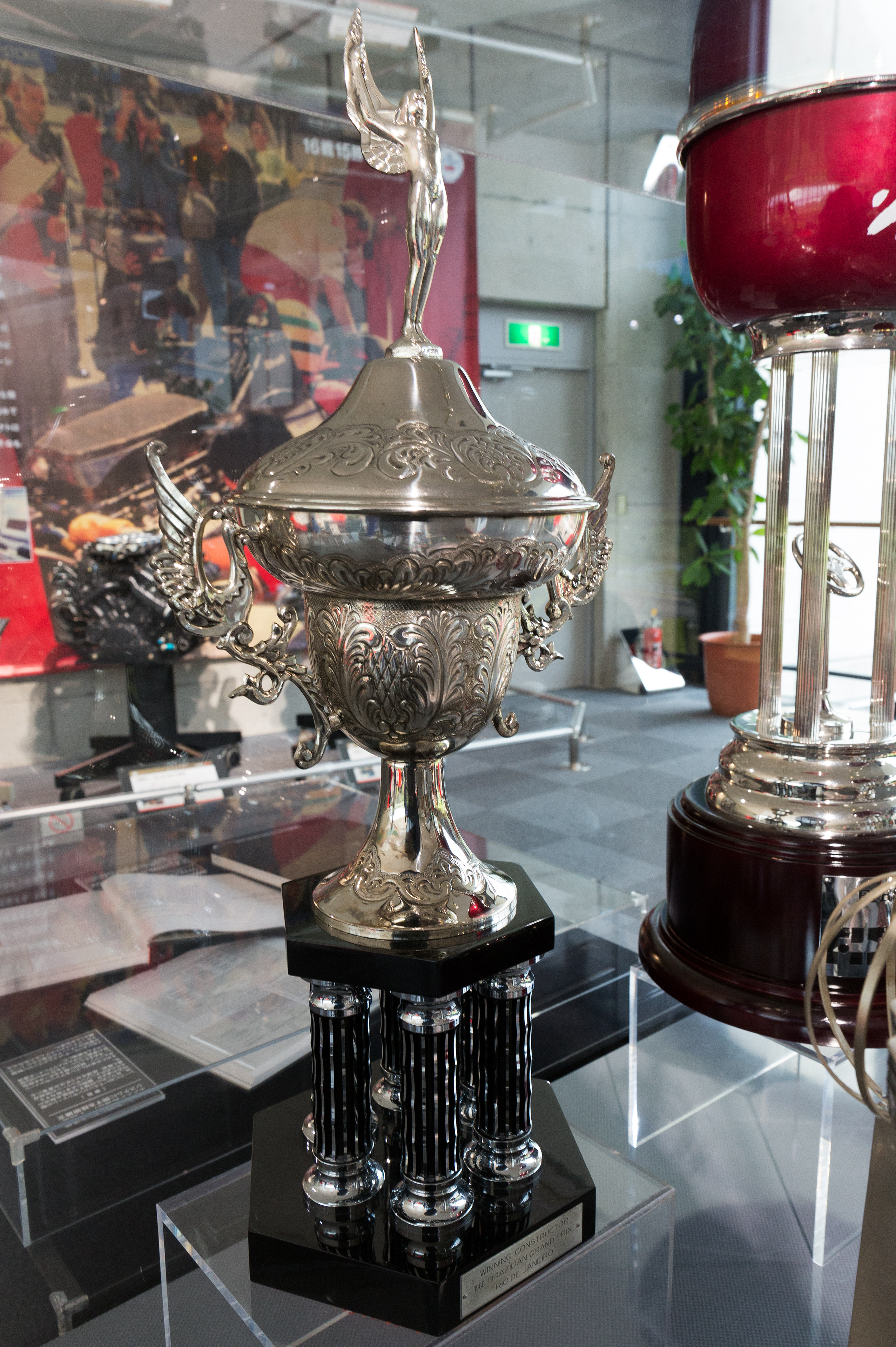 1988 Brazilian Grand Prix winning constructor's trophy (for McLaren)